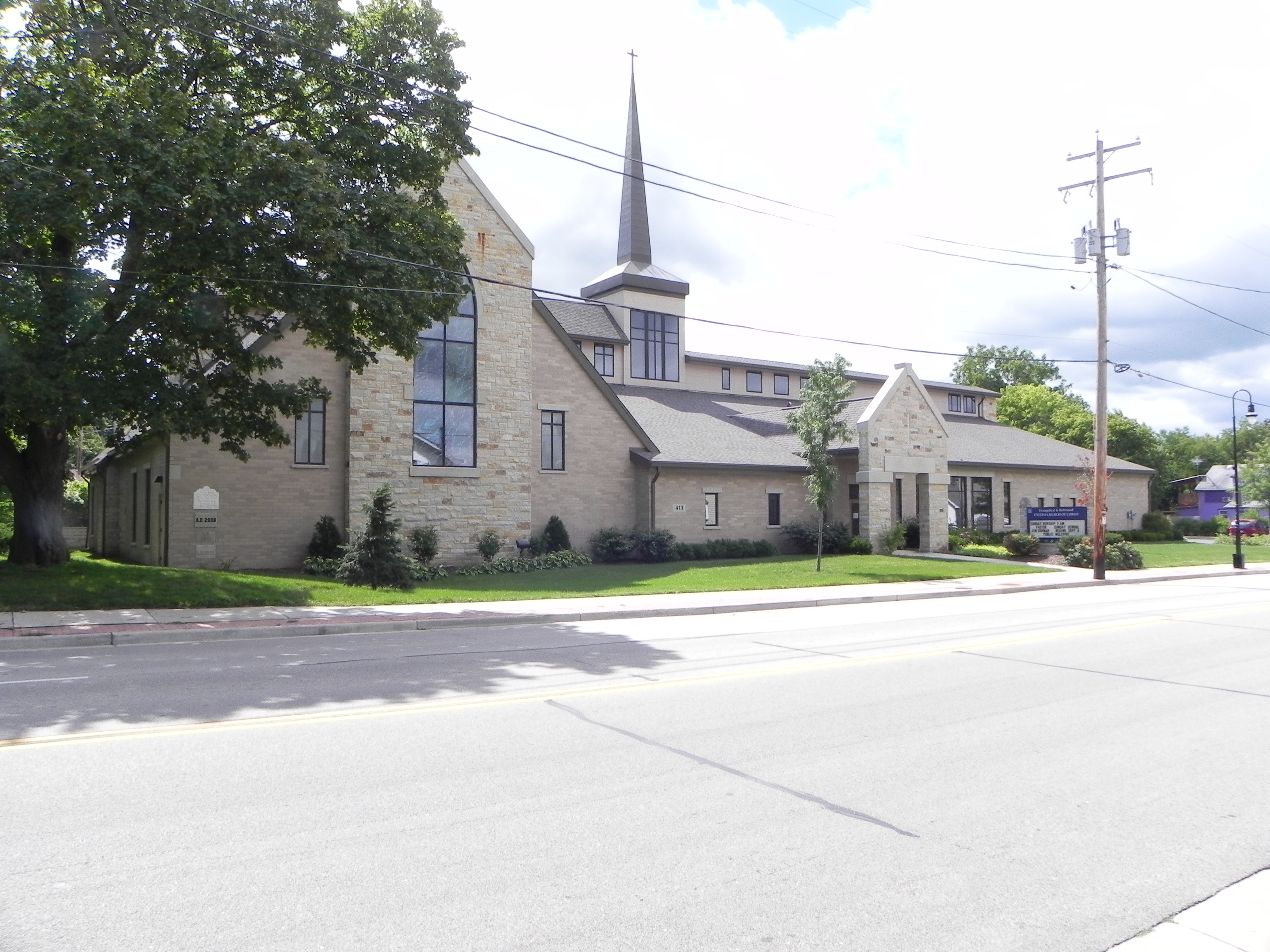 Evangelical and Reformed United Church of Christ, 413 Wisconsin Ave. Waukesha, Wisconsin. This building replaced the historic church that stood here and was destroyed in a 2005 fire.